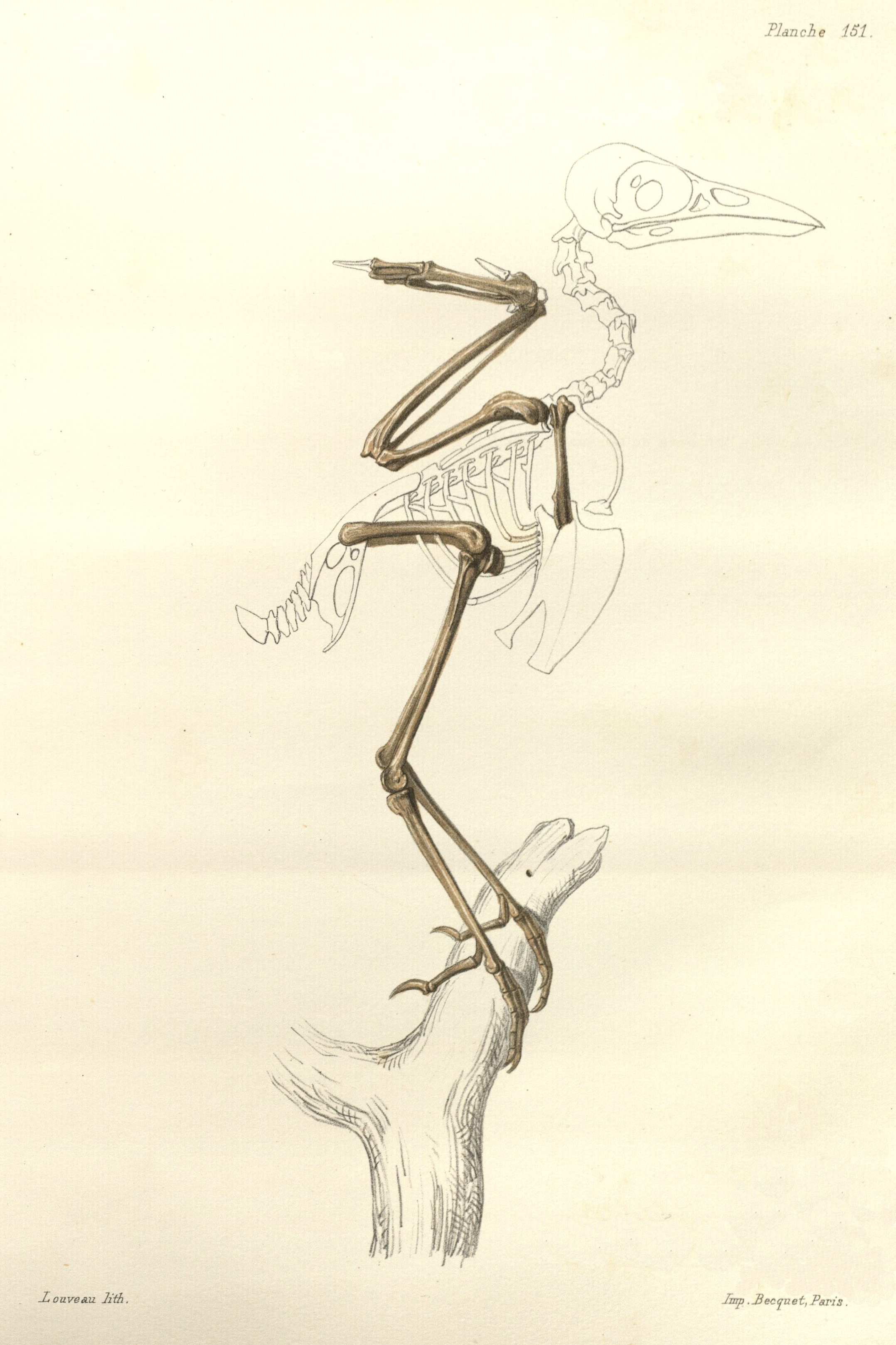 Plate 151 from Aphonse Milne-Edwards' Recherches Anatomiques et Paléontologiques depicting a reconstruction of the skeleton of Miocorvus larteti. Dark areas show the obtained bone material, light areas represent the reconstruction by Milne-Edwards.